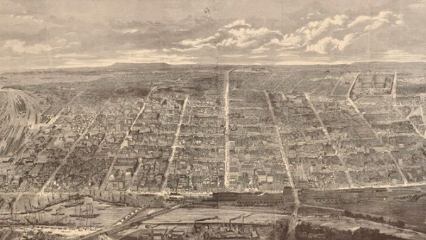 "Reproduced same size from a copy of the original engraving by Samuel Calvert in the National Library of Australia. ..." "Supplement to the Illustrated Australian News, October 1880.